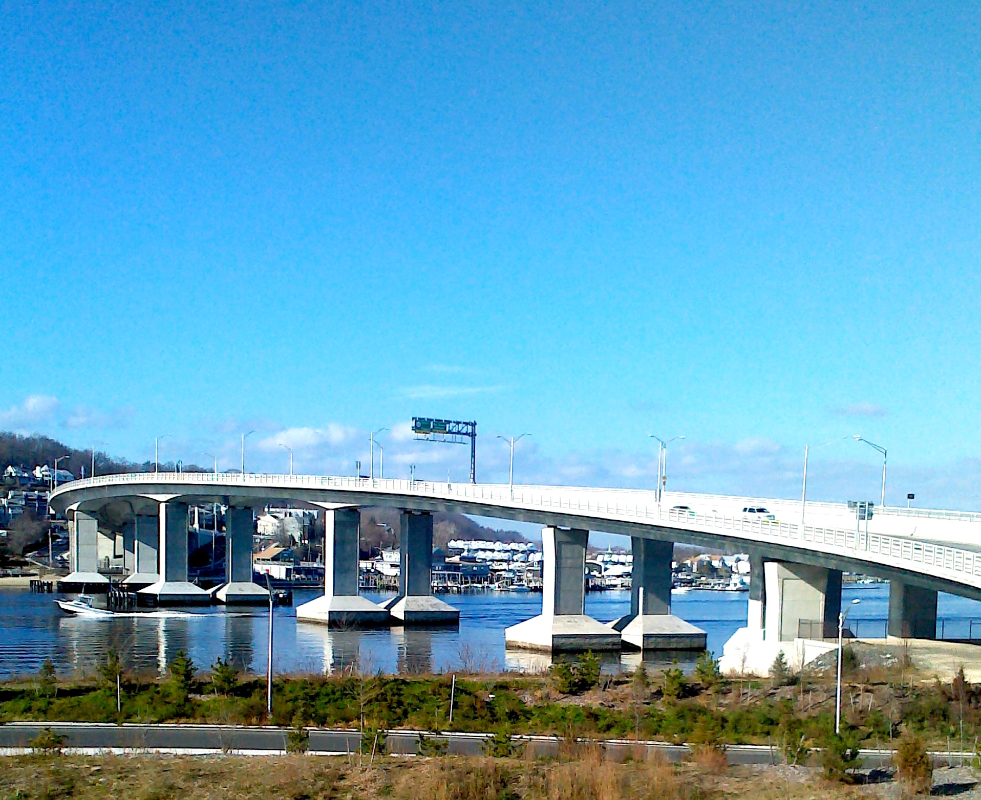 The newly constructed Highlands-Sea Bright Bridge, as seen from Sea Bright, New Jersey in December 2011.